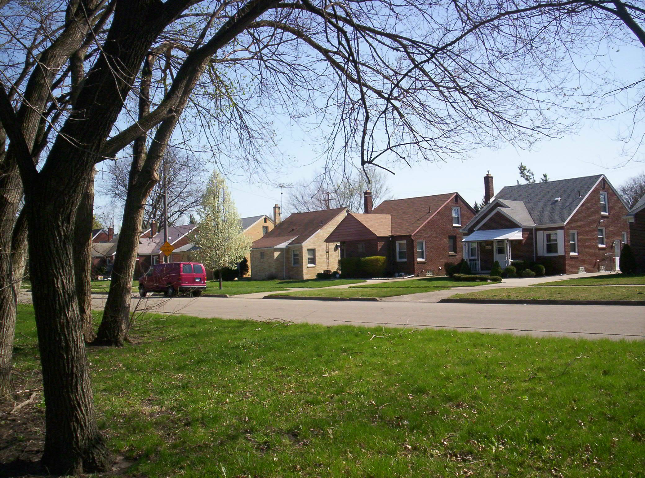 author: polishdill86